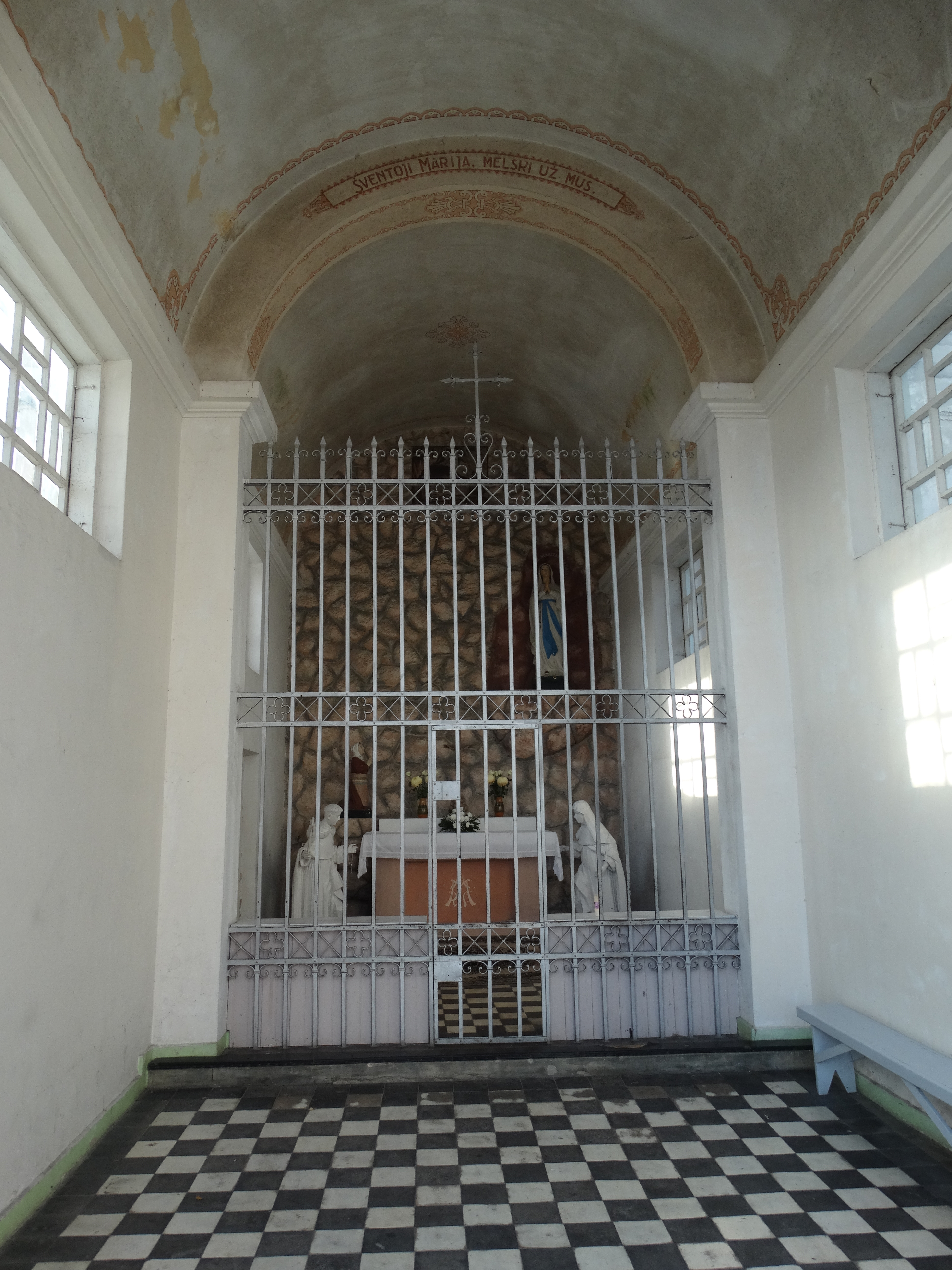 Lourdes chapel, Raseiniai, Lithuania